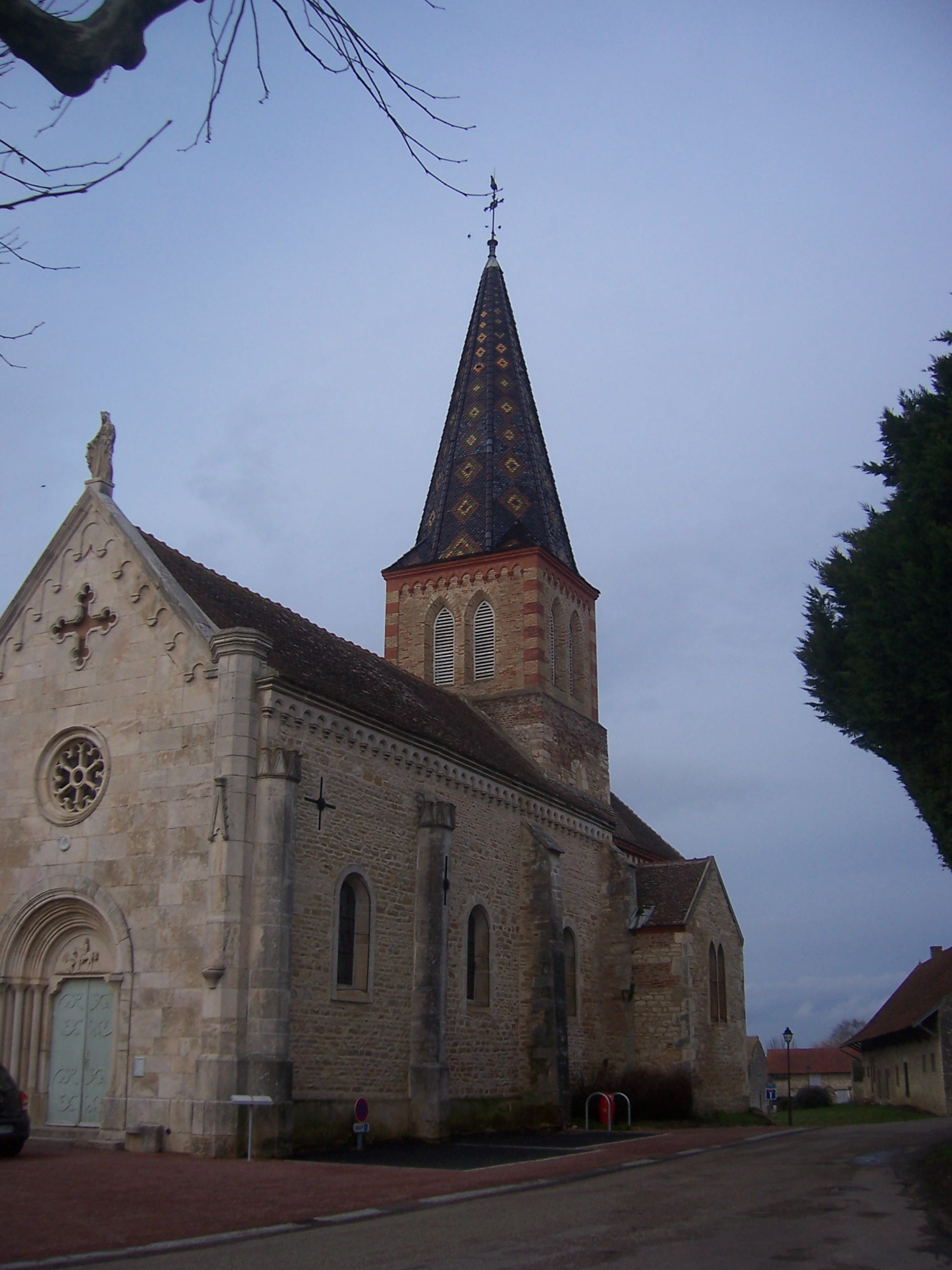 Allériot church